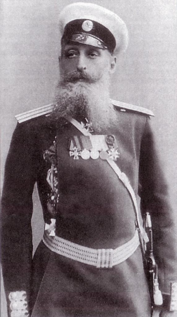 Alexander Matveevich Kovanko Russian inventor and pilot balloonist